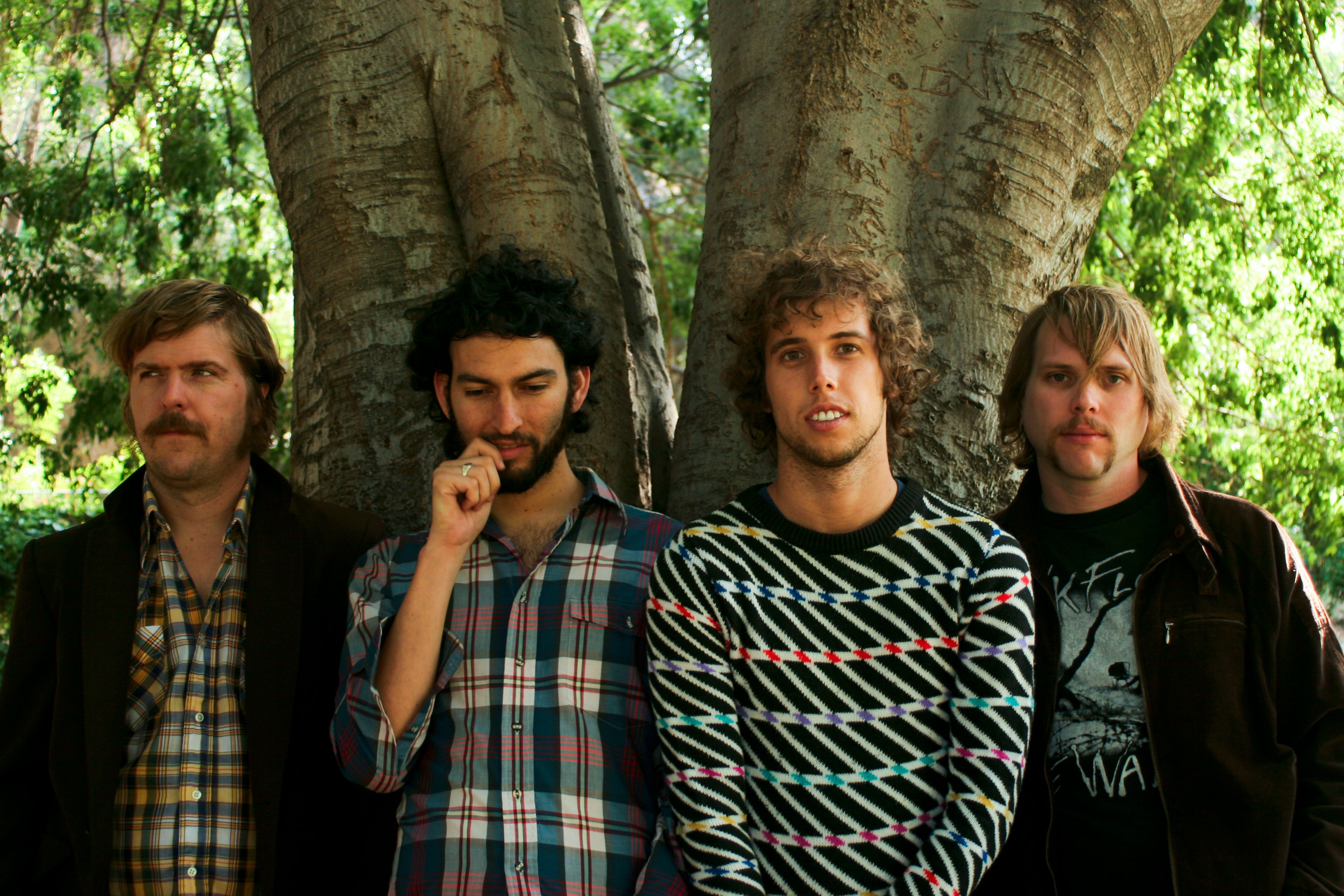 Public free photo from the bands record label. Allowed to be used for promotion.